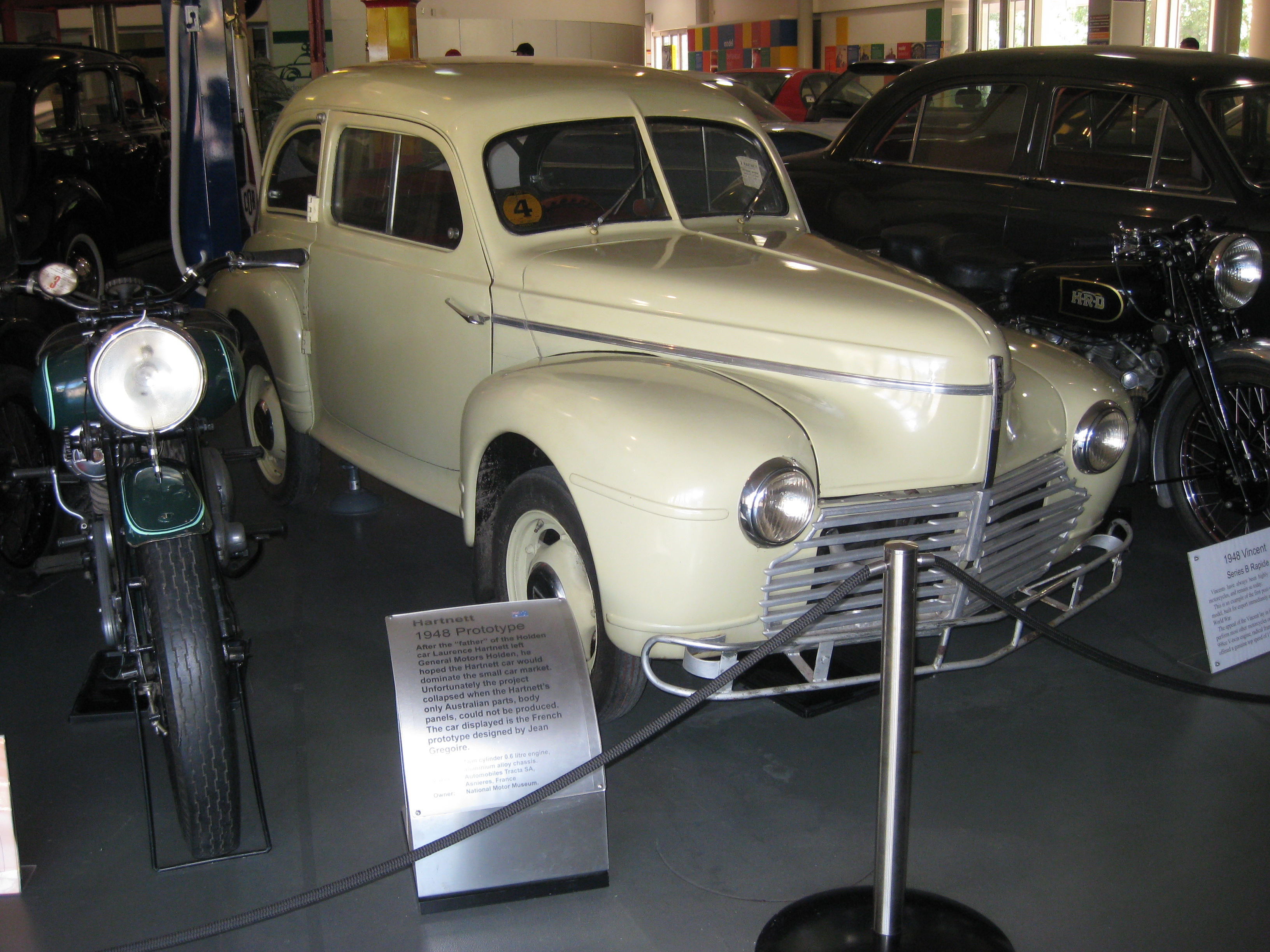 1948 Hartnett prototype at the National Motor Museum, Birdwood, South Australia